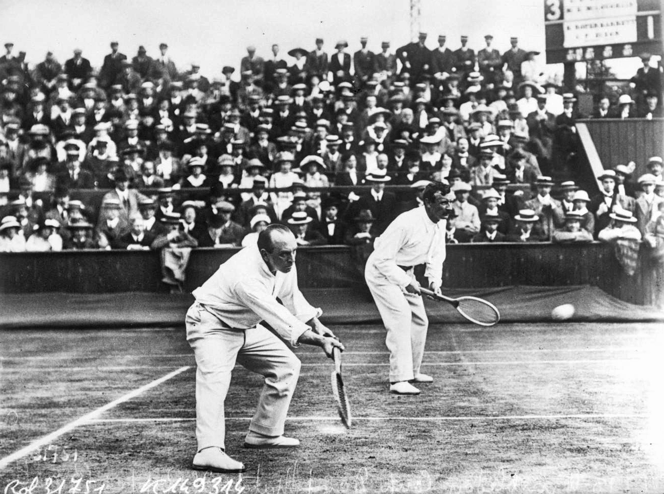 Herbert Roper Barrett (left) and Charles Percy Dixon, English tennis players, during a match at the 1913 Davis Cup at Wimbledon.